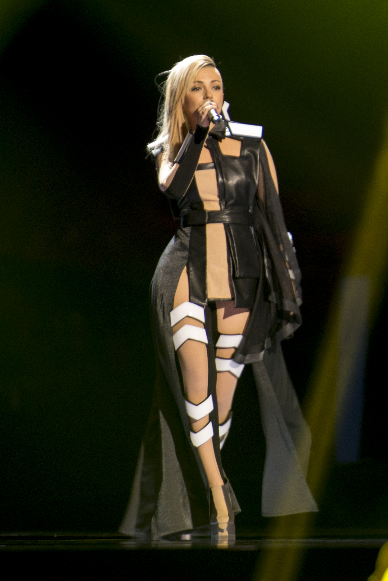 Poli Genova representing Bulgaria with the song "If Love Was a Crime" during a rehearsal before the second semi final of the Eurovision Song Contest 2016 in Stockholm. (Help translate this text)